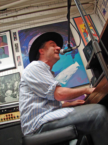 John Cleary at the Louisiana Music Factory, New Orleans, Louisiana playing at an in-store event during New Orleans Jazz & Heritage Festival